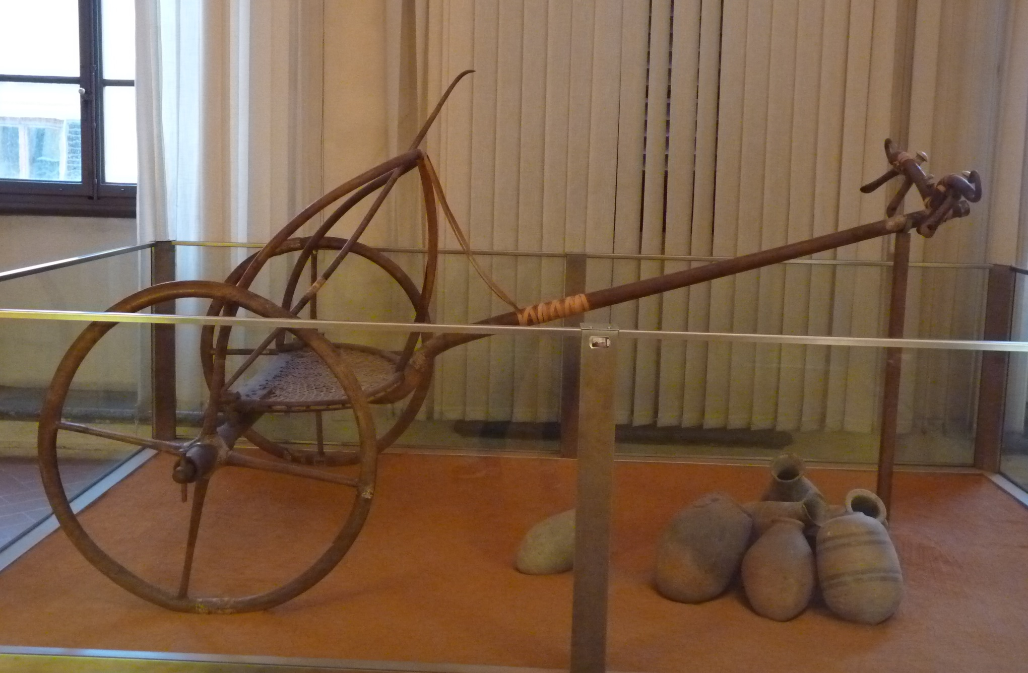 Ancient egyptian chariot from a theban tomb of a private, probably used for hunting and sport. 18th dynasty, New Kingdom. Florence, Museo archeologico nazionale, n. 2678.